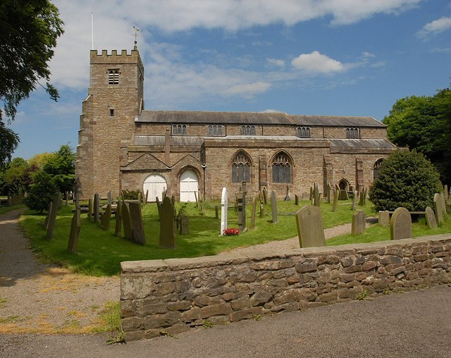 St. Helen's Church, near to Churchtown, Lancashire, Great Britain.